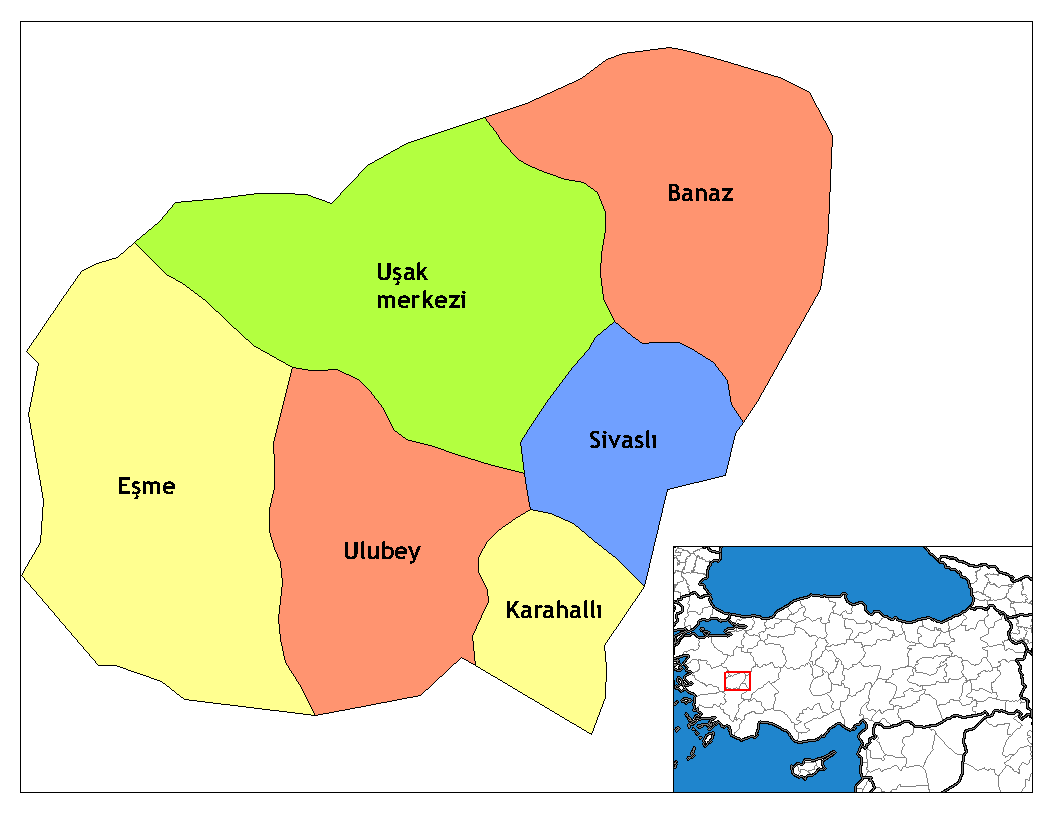 Map of the districts of Usak province in Turkey.